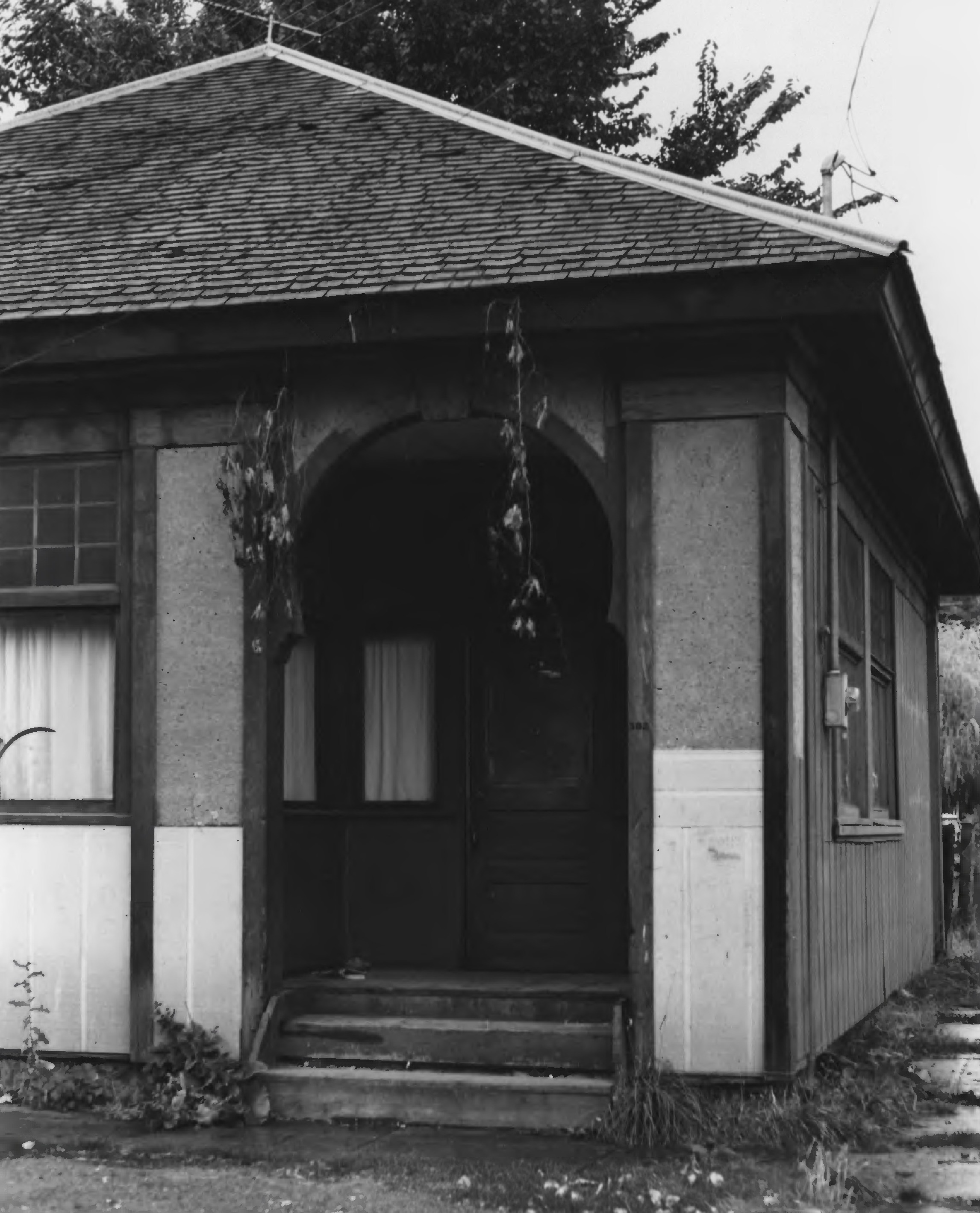 The historic First Lapwai Bank (built 1909), formerly located at 302 West 1st Street in Lapwai, Idaho, United States, is listed on the US National Register of Historic Places. The bank building was destroyed sometime between 2009 and 2013 (based on Google Earth satellite imagery).